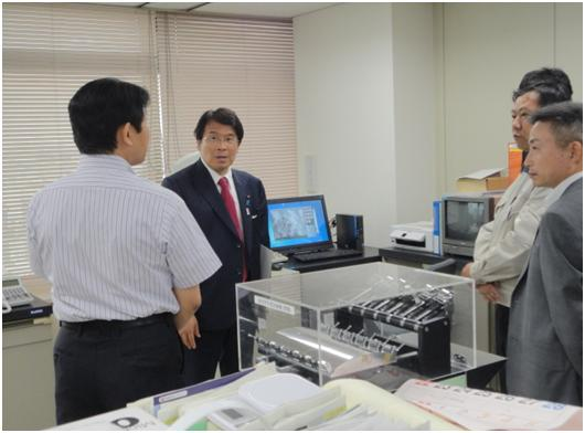 Jin Matsubara, Minister of State for Consumer Affairs and Food Safety, and Hirohiko Fukushima, Commissioner of the Consumer Affairs Agency, inspected Tōkyō Metropolitan Comprehensive Consumer Center in Shinjuku Ward, Tōkyō Metropolis on May 31, 2012. (For terms of use, see 利用規約｜消費者庁.)